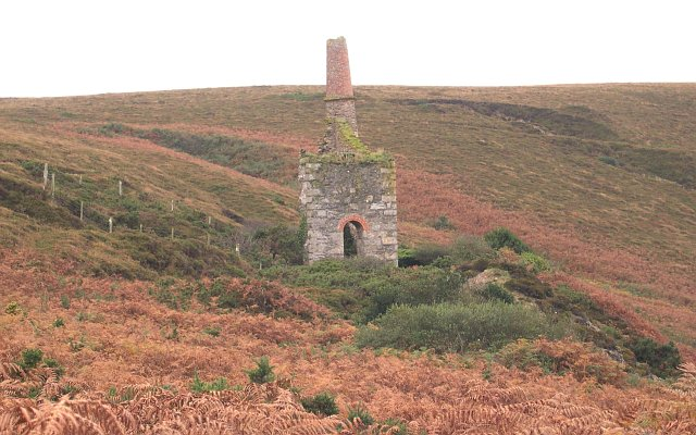 Engine House, Chapel Combe. This is the derelict engine house of Wheal Charlotte Mine. Chapel Coombe is riddled with old mine workings and dangerous mine shafts, all covered with bracken and gorse. It reminds one of the advice given to Red Riding Hood, "Don't stray from the path".